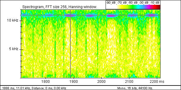 spectrogram of frequency division recording with Horseshoe bat (Rhinolophidae)